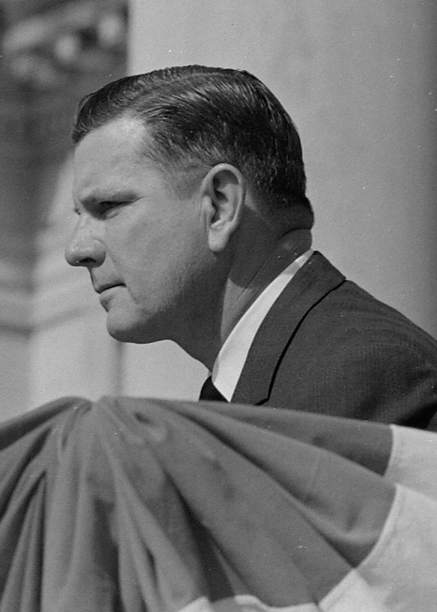 Collection: Moncrief Photograph Collection Call number: PI/1994.0005 System ID: 94654. Link to the catalog Inauguration of Governor Paul B. Johnson Jr., January 21, 1964. Lieutenant Governor Carroll Gartin at the State Capitol in Jackson (Miss.). Please see our profile page for information on ordering. Scanned as TIFF in 2005-03-30 by MDAH. Credit: Courtesy of the Mississippi Department of Archives and History